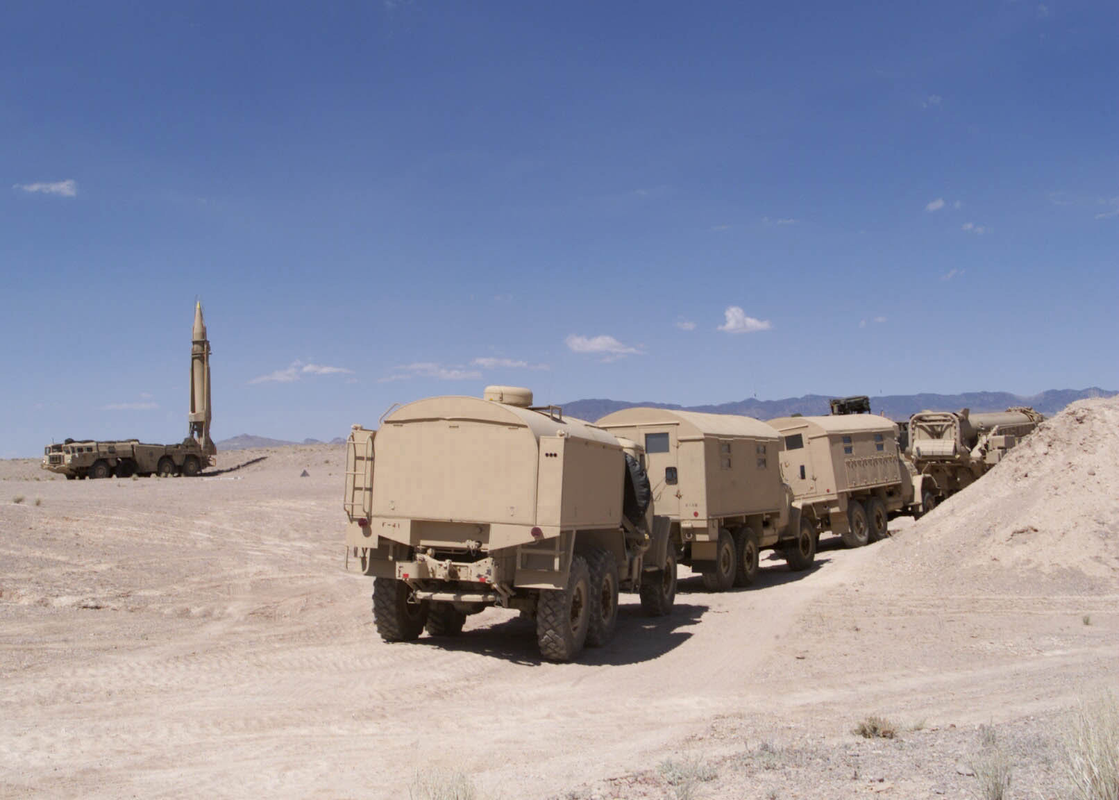 A Soviet made MAZ-543P-TEL SCUD missle launcher, along with its three support vehicles providing power and electronics support, simulate an enemy threat for US and Allied pilots during Roving Sands, a joint forces exercise, at Tonopah Test Range, Tonopah, Nevada, 16 June, 2000.